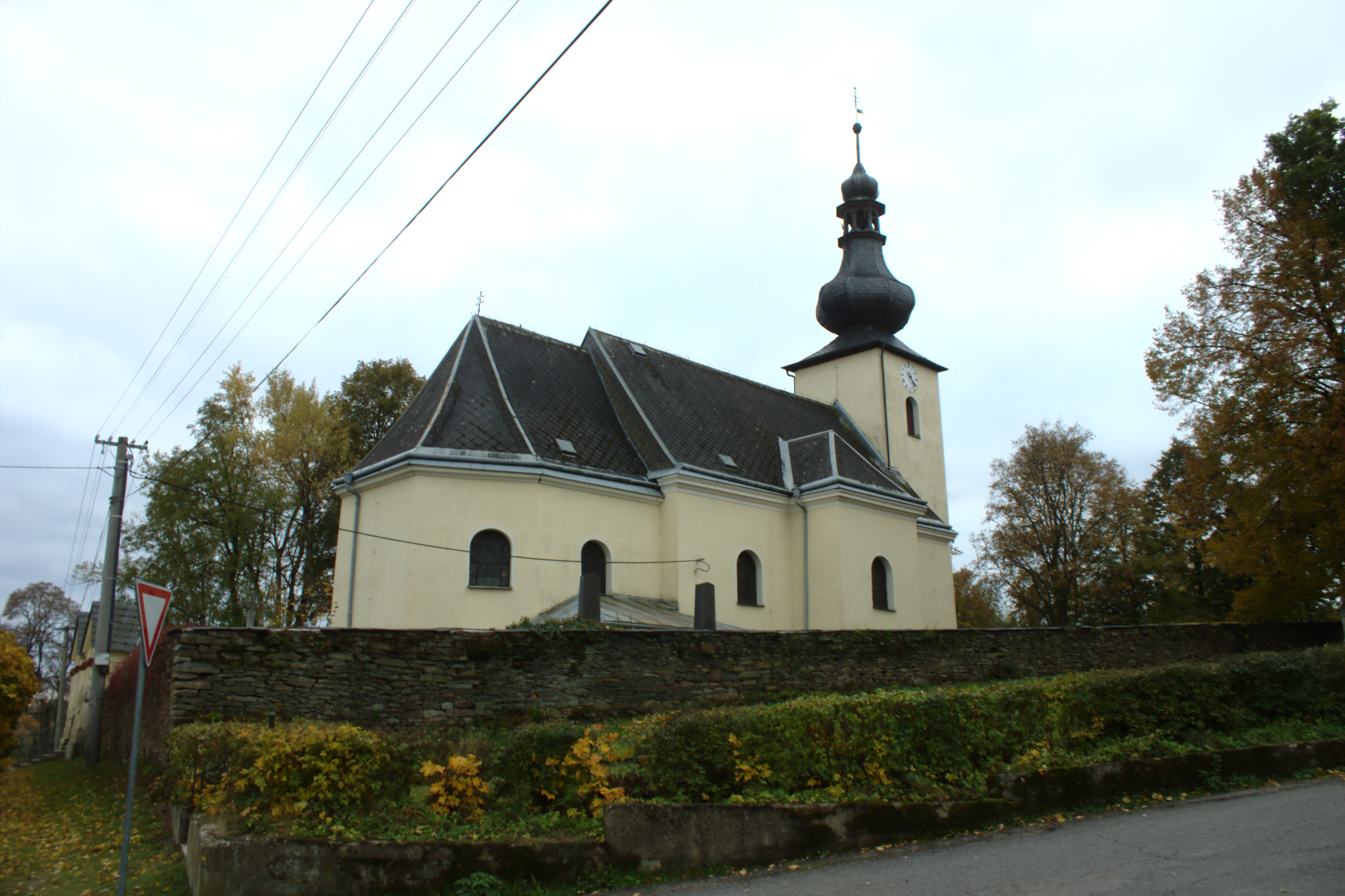 A church in Svatoňovice, Moravian-Silesian Region, CZ